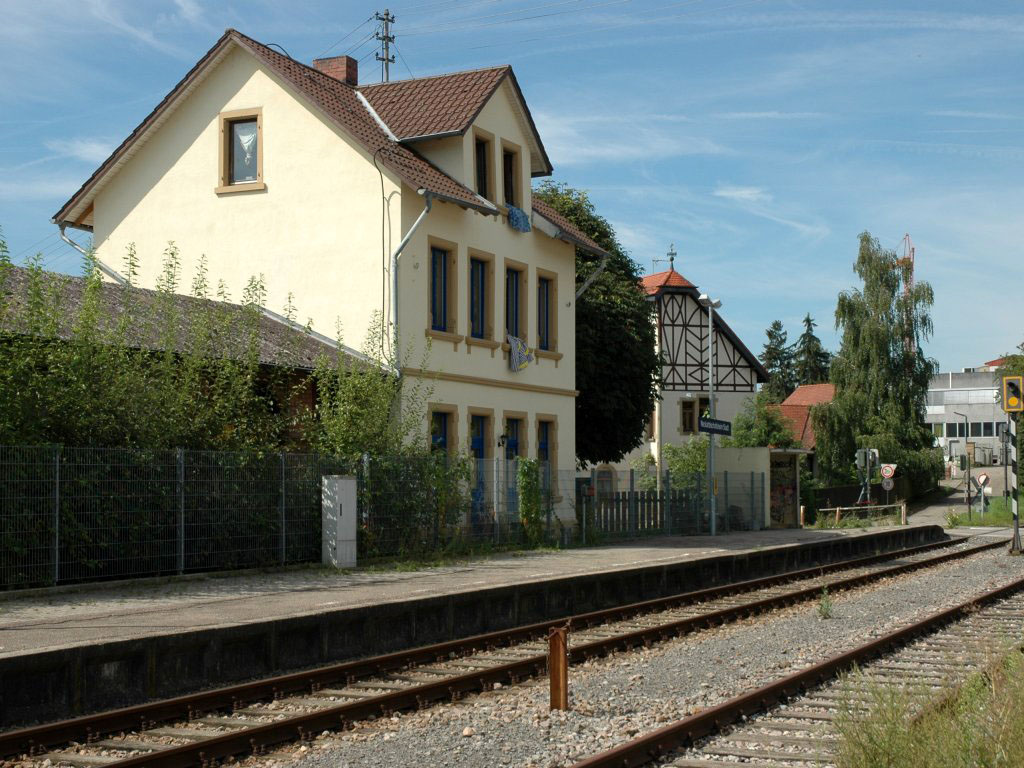 Neckarbischofsheim Stadt train station.